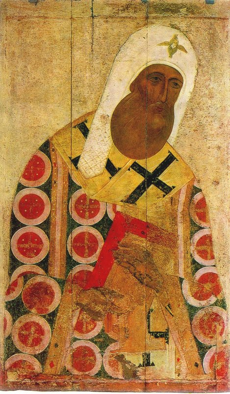 Metropolitan Peter of Moscow. Пётр Московский